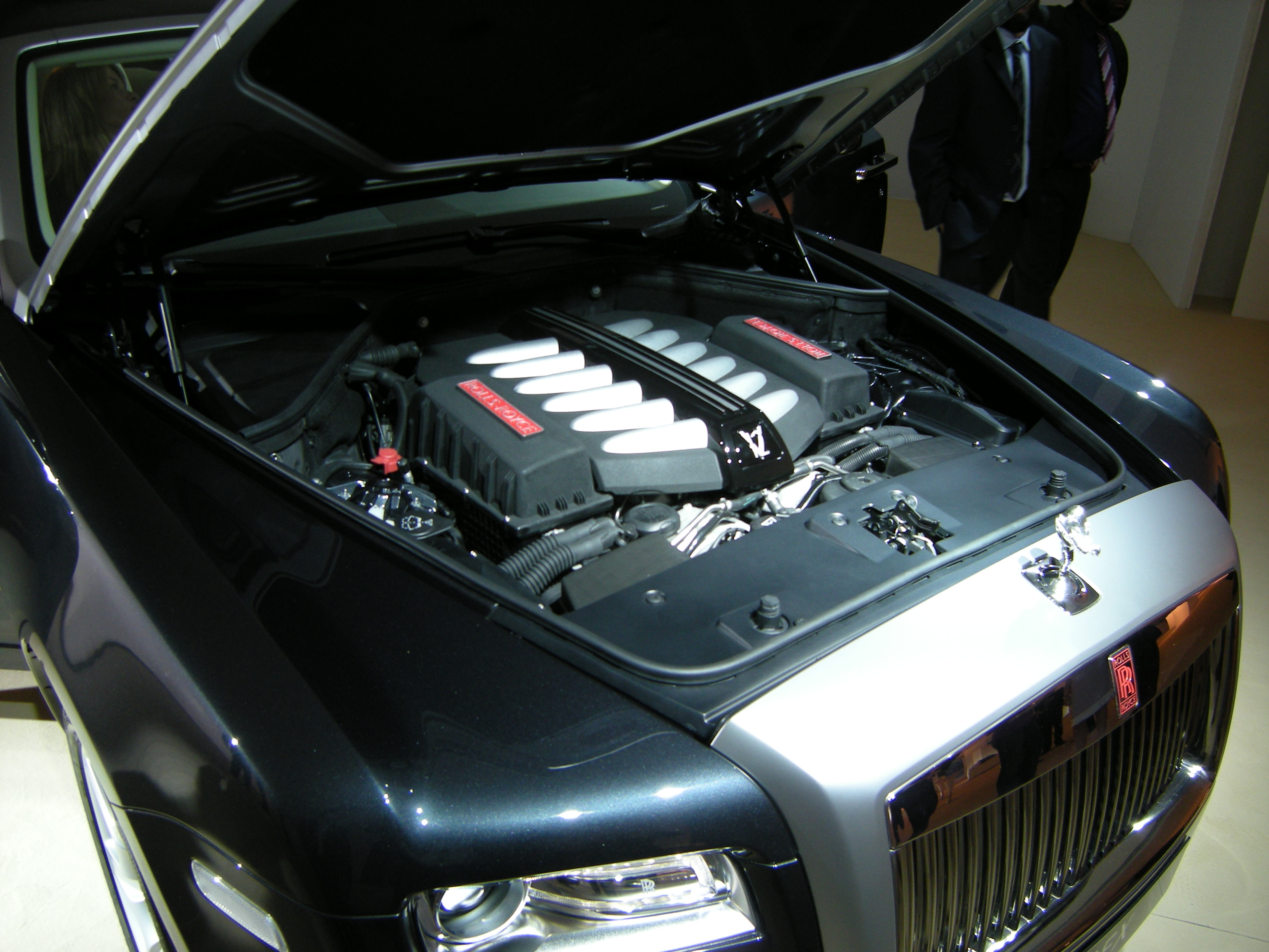 Rolls Royce 200EX 'Ghost'